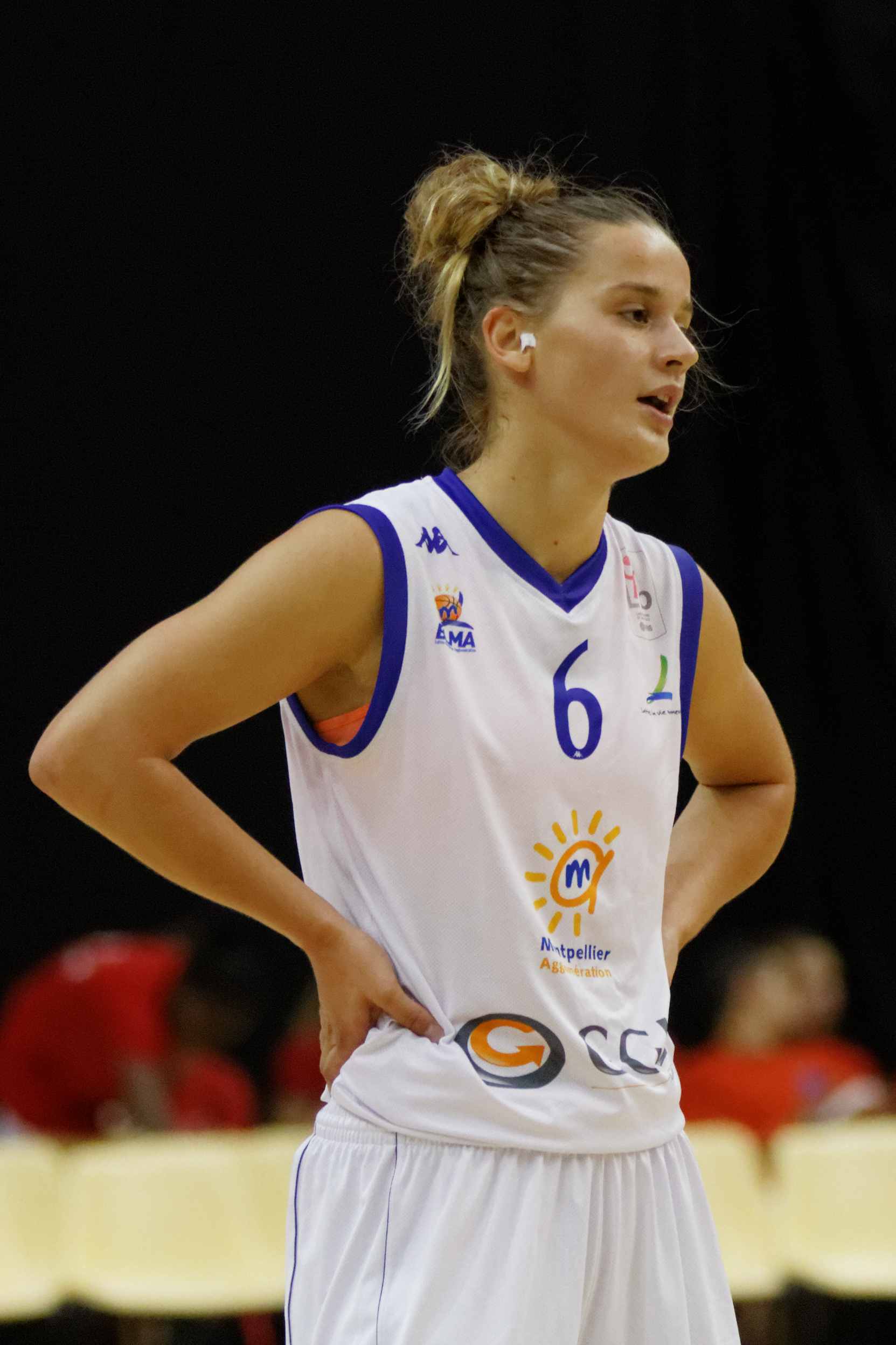 Open LFB, Lattes Montpellier-Nice, October 6th, 2013.